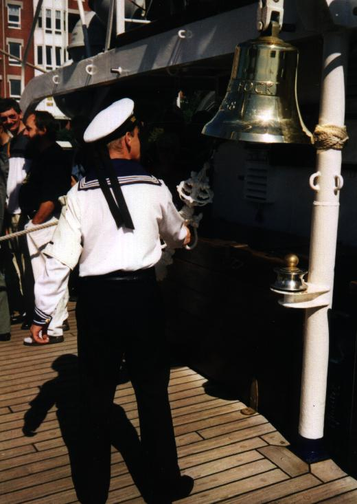 Striking the bell on a German vessel